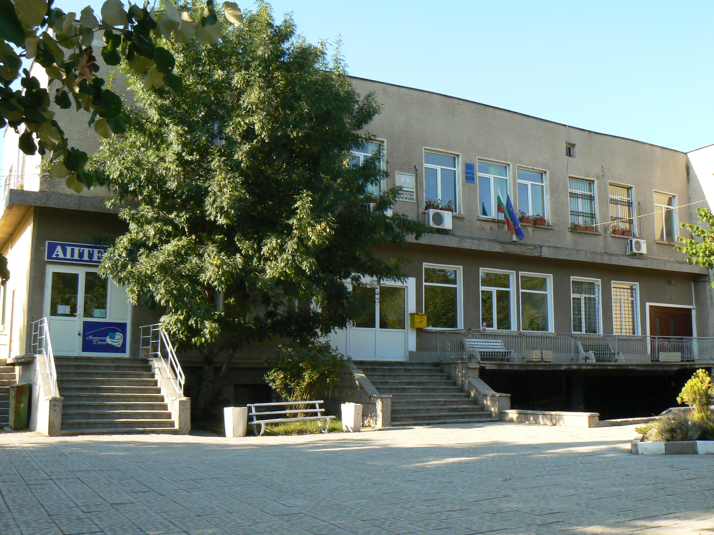 The mayor's office in village Dragichevo, Bulgaria